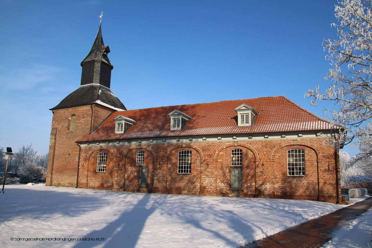 View of the church in Krummendeich in Nordkehdingen.